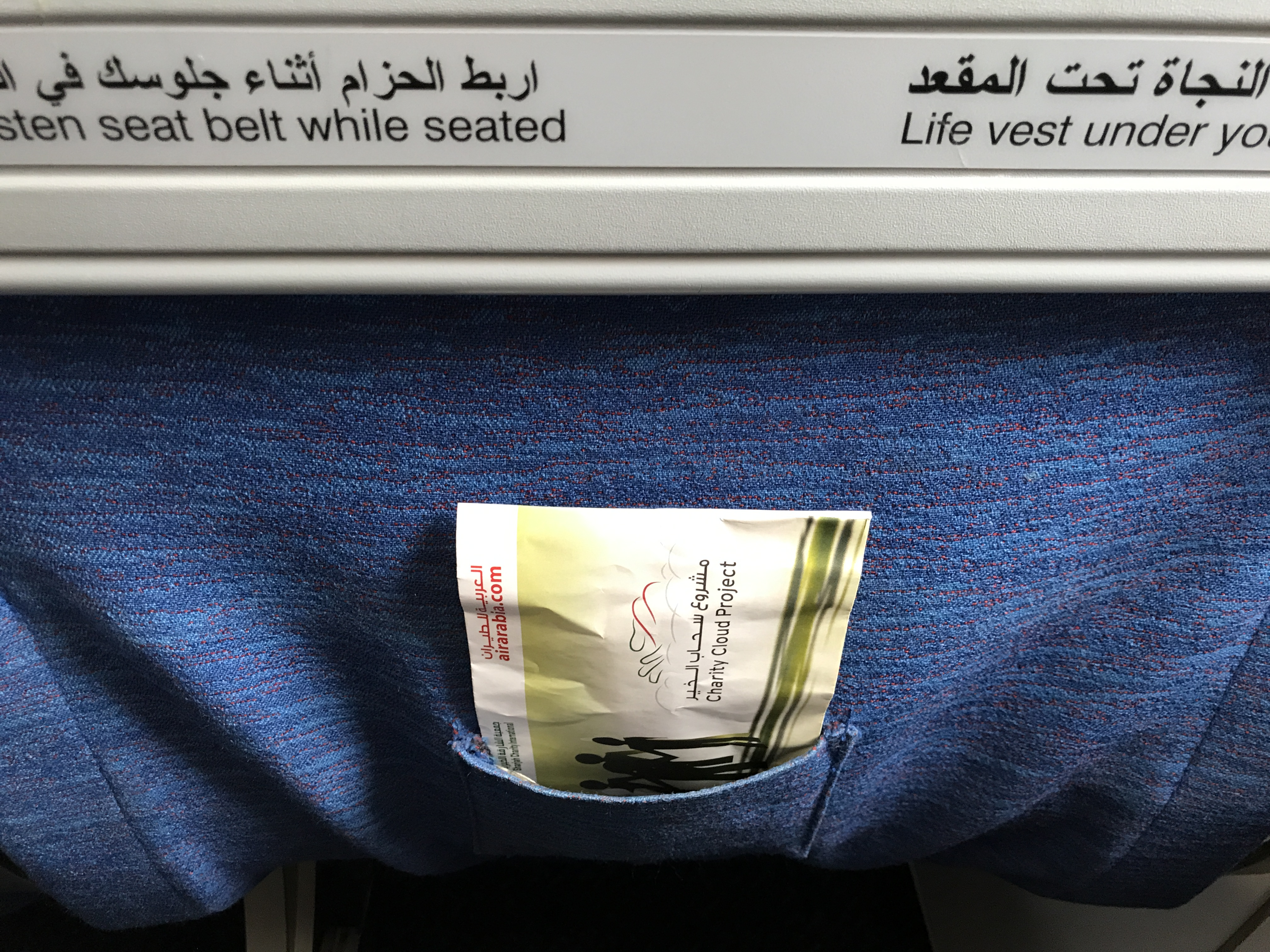 This envelope can be used by passangers in any Air Arabia flight for donation to Charity Cloud Project in collaboration with Sharjah Charity International